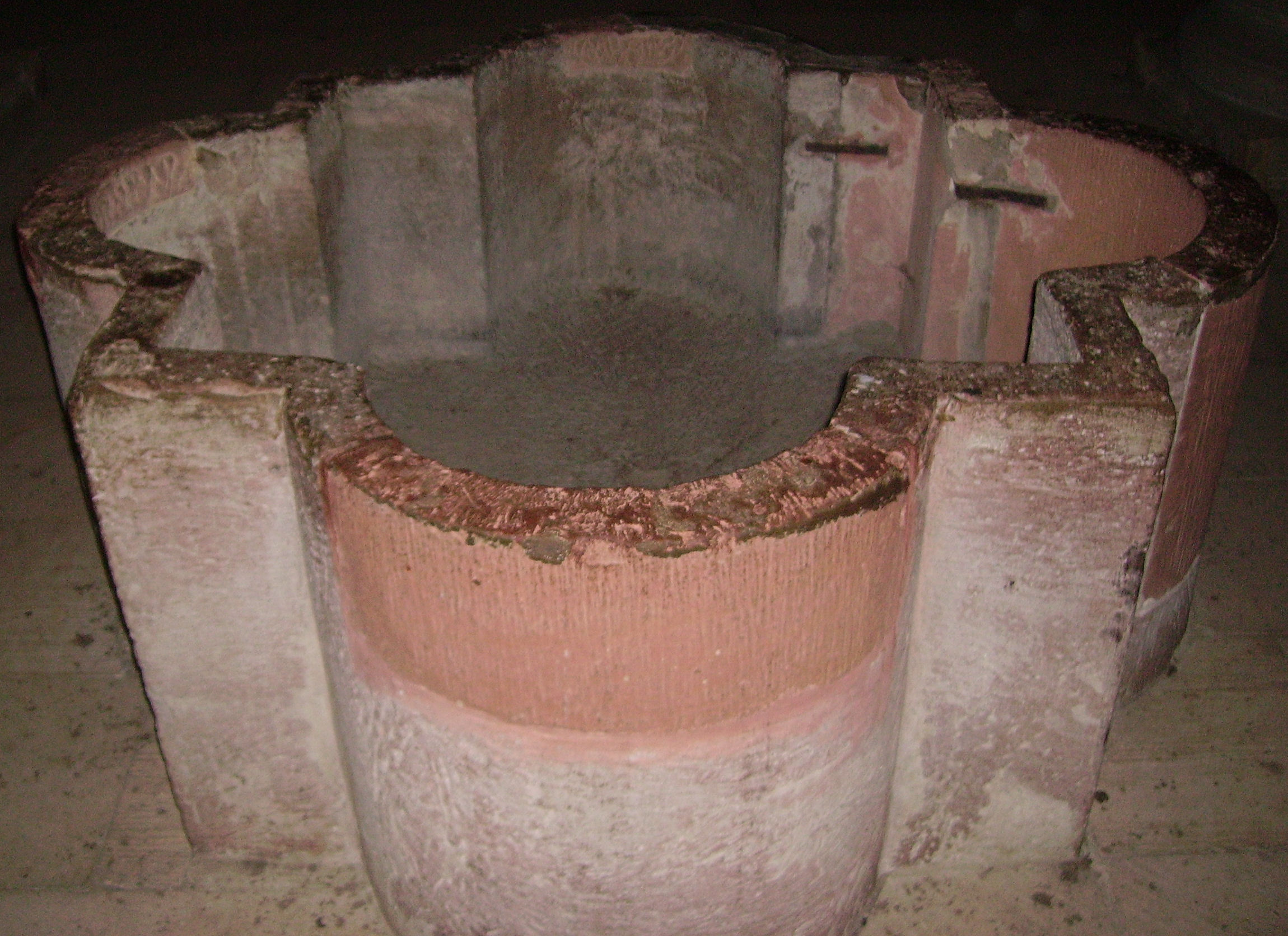 Speyrer Dom (Cathedral of Speyer, Germany)